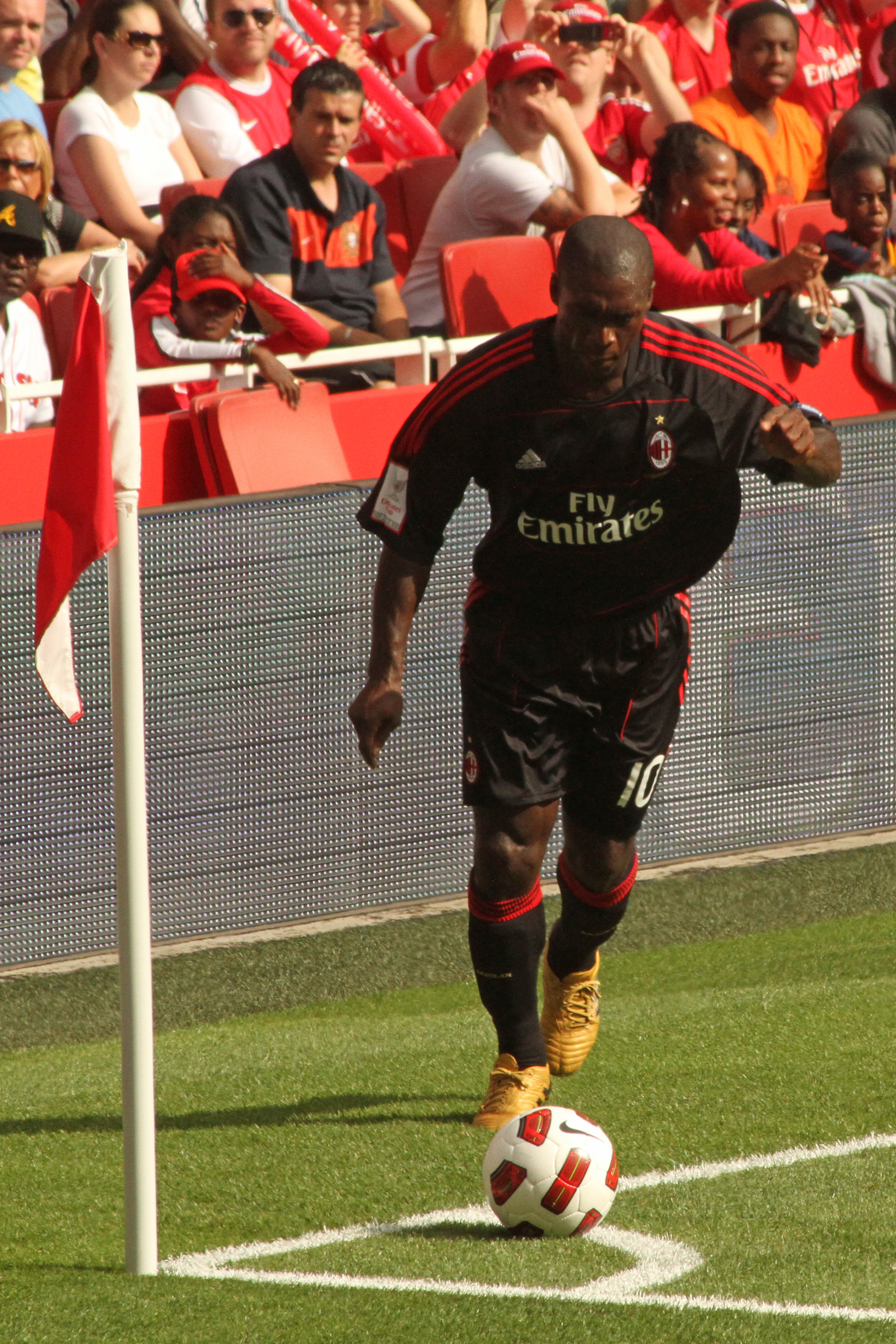 Clarence Seedorf takes a corner during Emirates Cup 2010